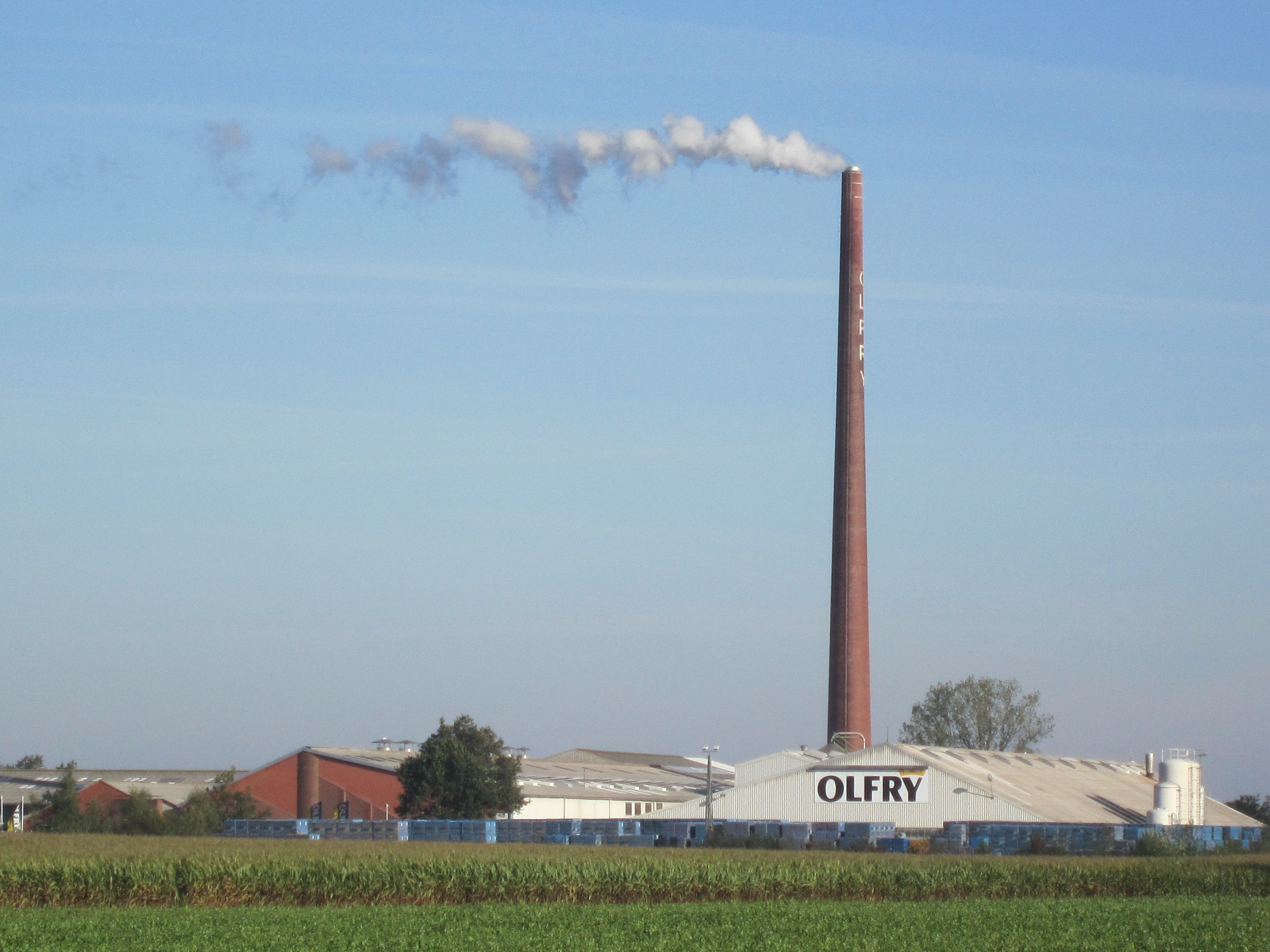 Olfry brickyard in Vechta